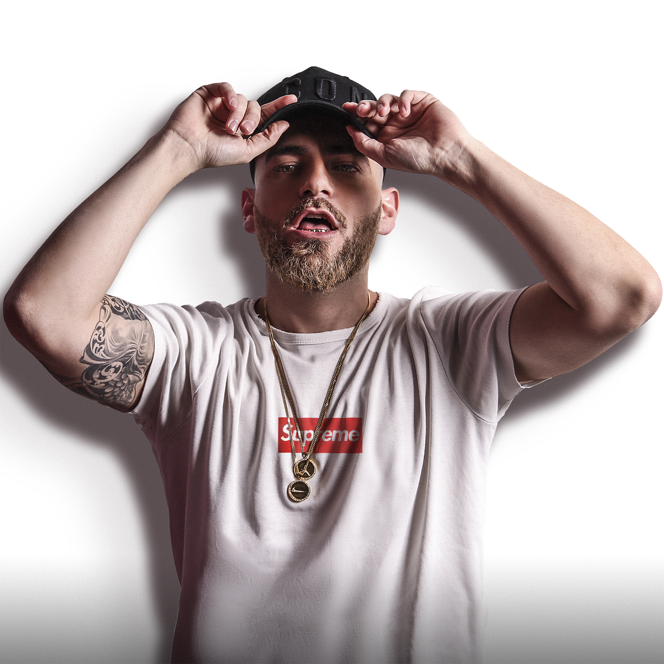 AM Sniper Supreme promo image